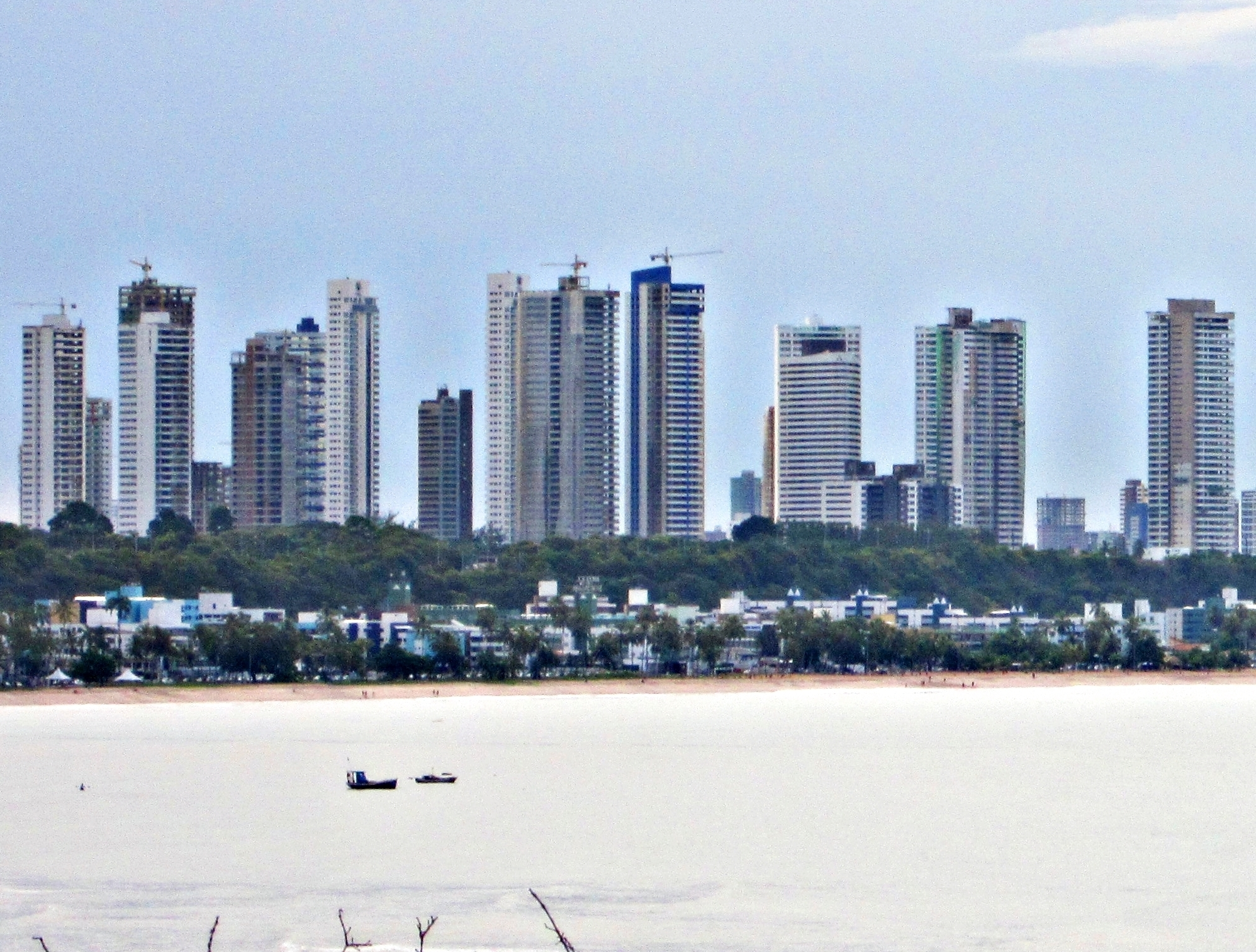 The neighborhood of Altiplano - João Pessoa, Paraíba, Brazil